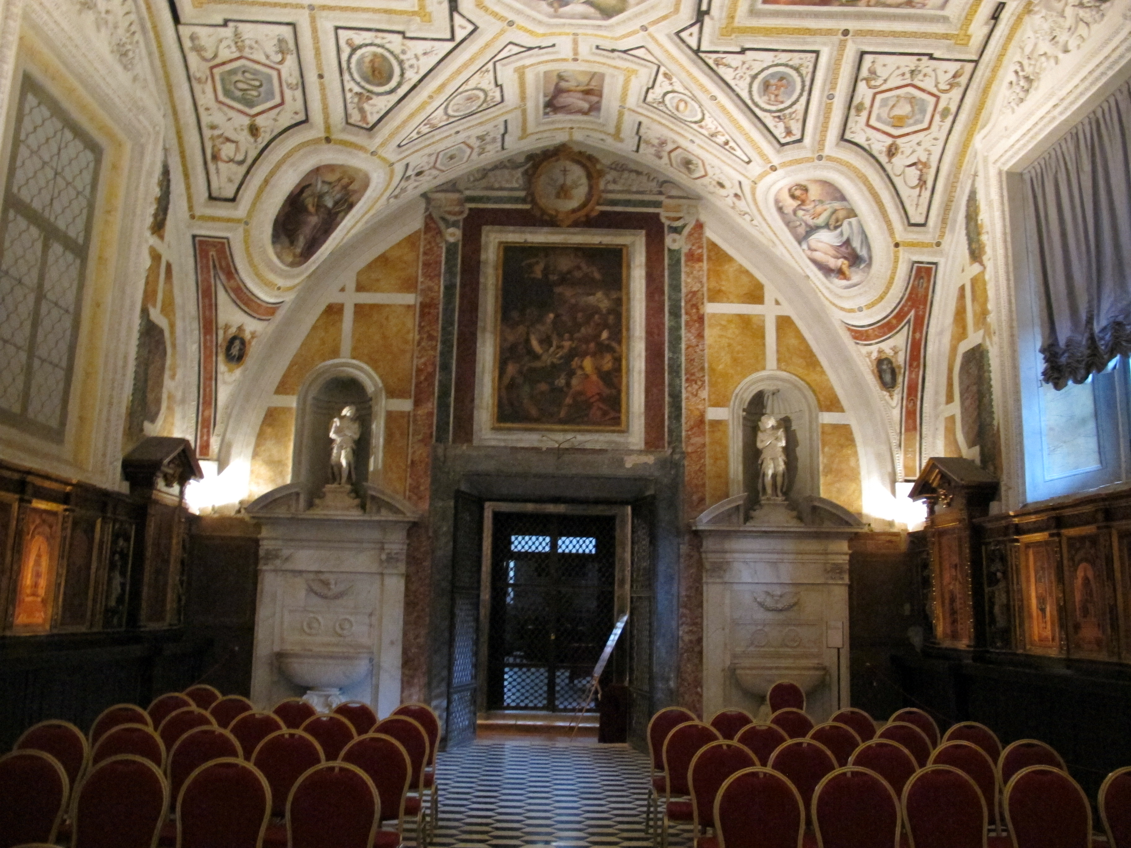 Vasari's Vestry, Napoli